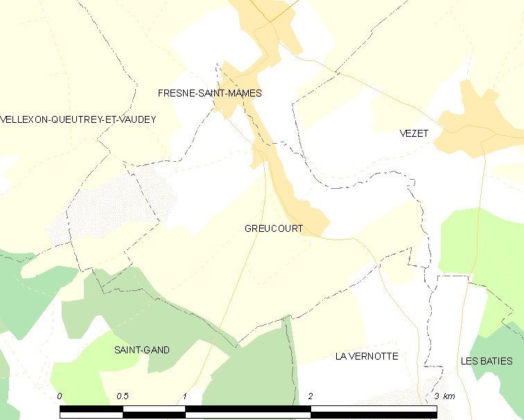 Map of French municipality